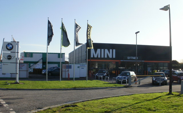 Sytner Mini, Newport. Sytner operate two dealerships side-by-side, on premises situated between East Dock Road and Usk Way. This one is the Mini dealership ; adjacent is the BMW dealership.1600473